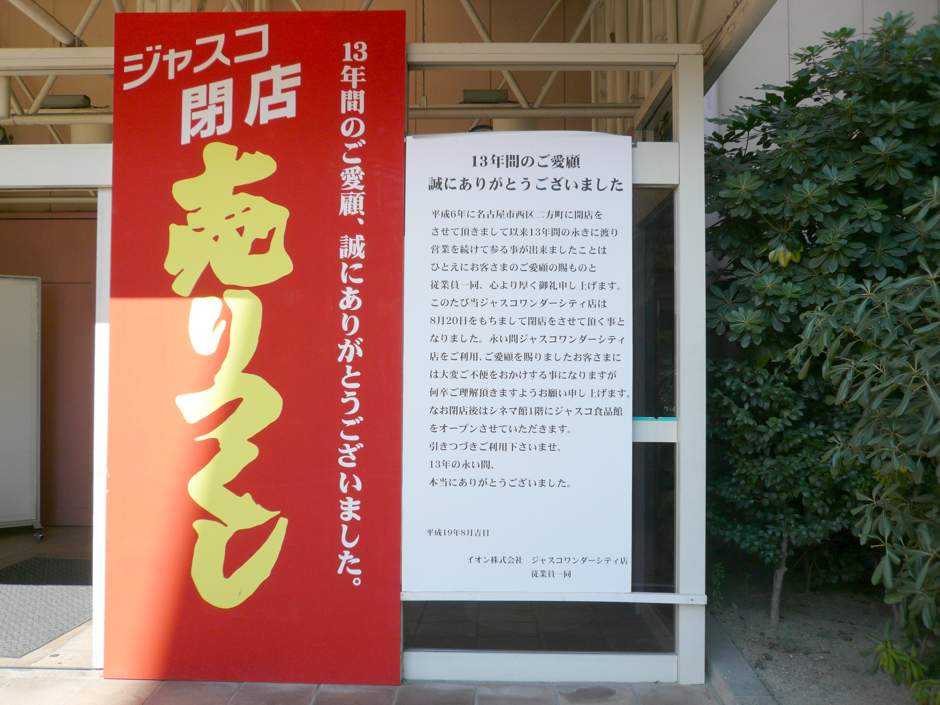 Diamond City of Wonder City Shopping Center.